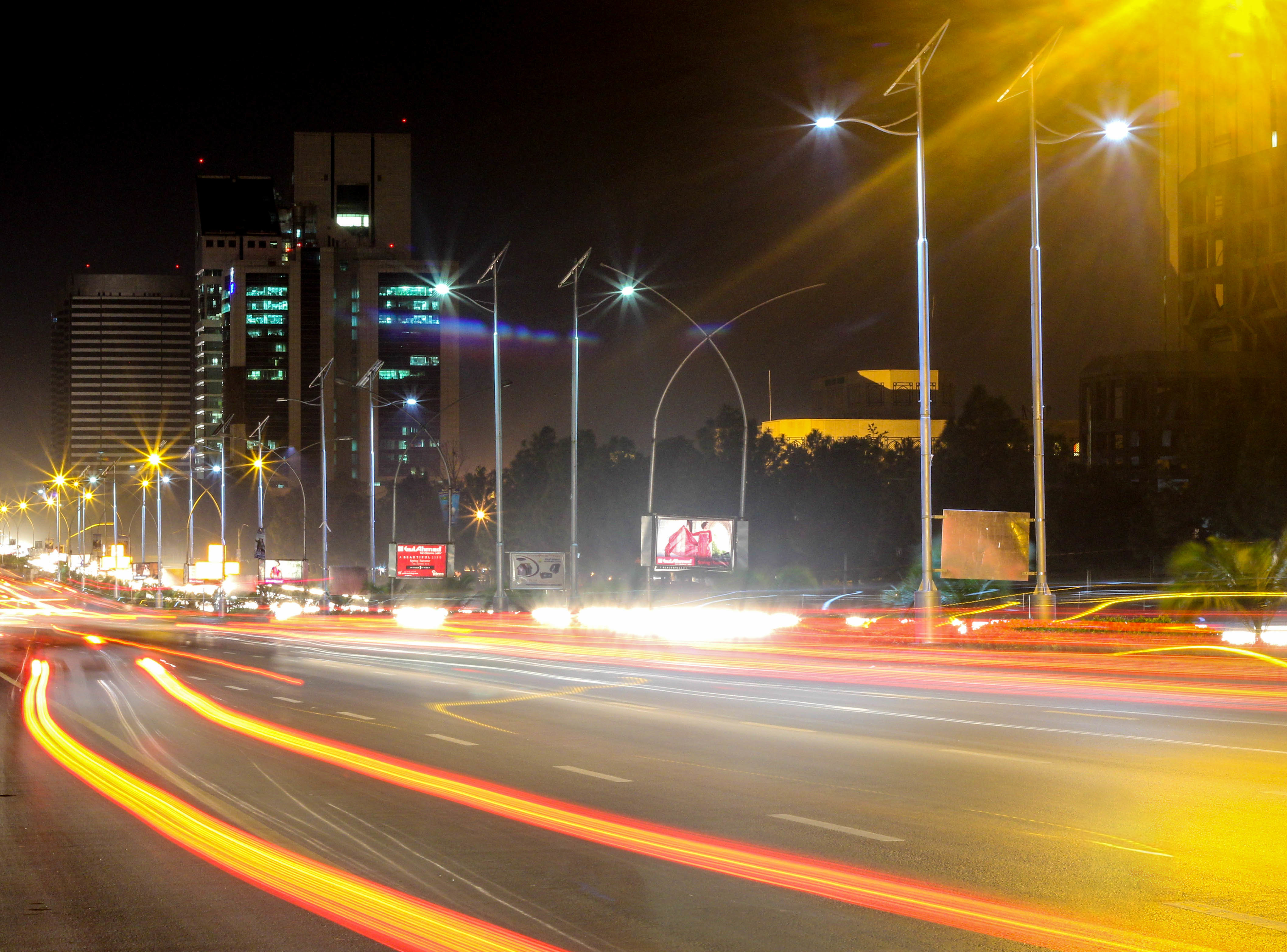 Blue Area the business hub of the capital